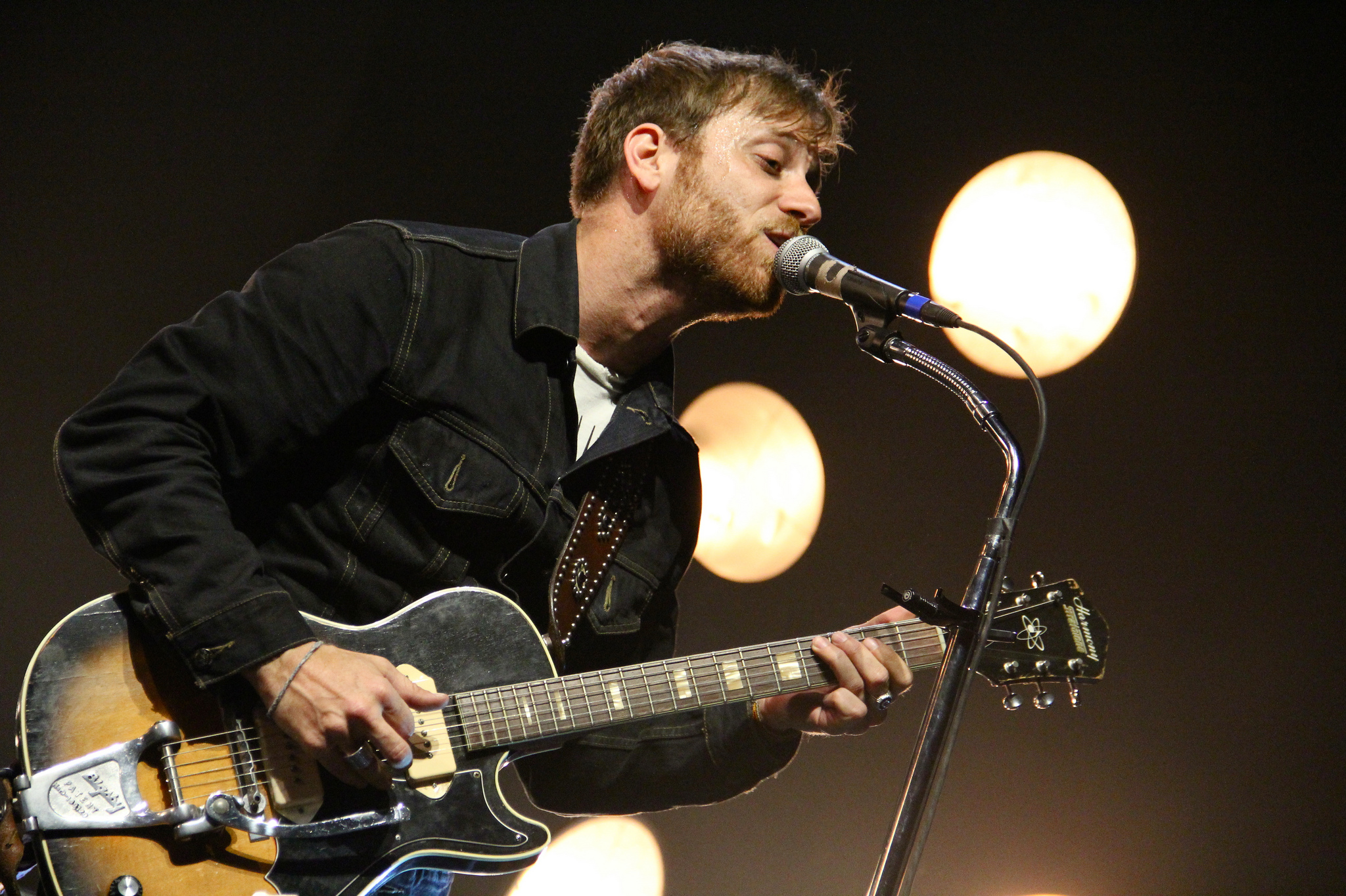 Dan Auerbach performing with the Black Keys at the BOK Center in Tulsa, OK on April 28, 2012.